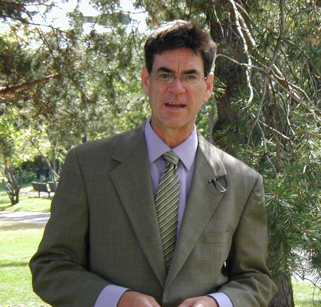 I work on Jay Pond's campaign and am releasing this image under the below license.